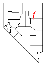 Locator map of the Ruby Mountains — in northeastern Nevada. Primarily within Elko County, Nevada.